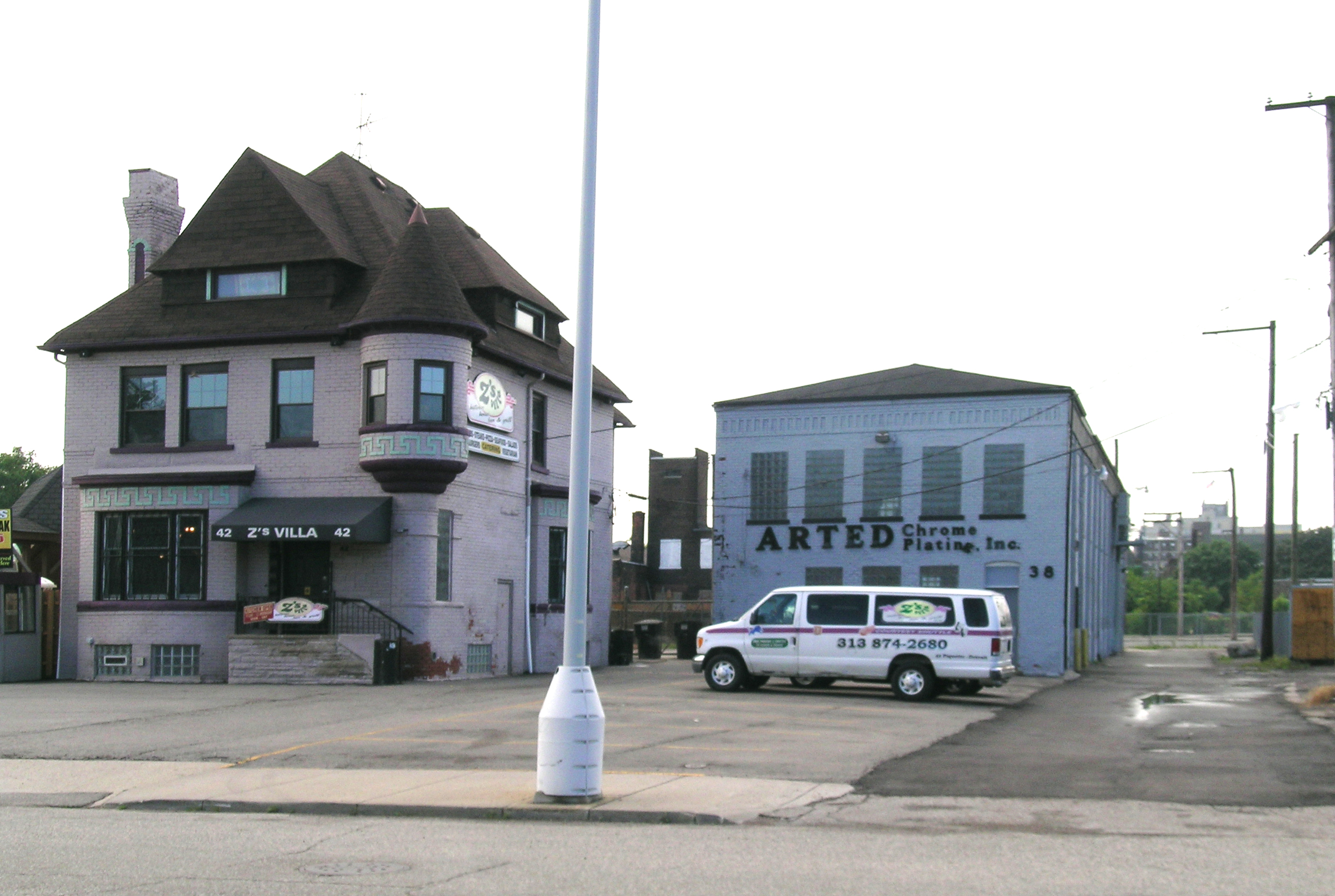 Z's Villa and Arted Chrome Platings on Piquette Avenue in Detroit, Michigan, United States.